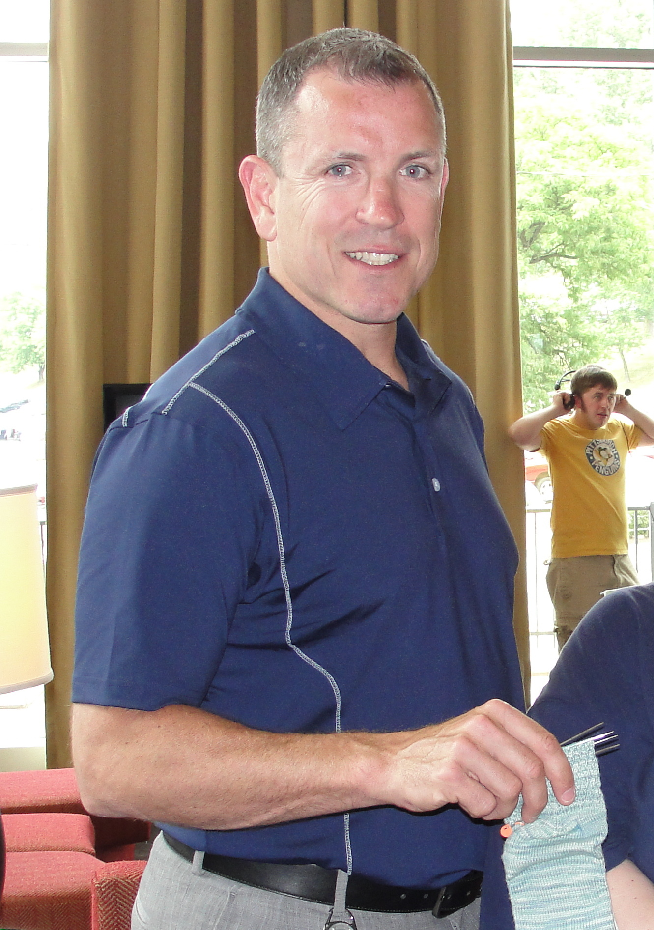 Pittsburgh Penguins Assistant General Manager Tom Fitzgerald holds the Knitting Lady's sock prior to the first round of the 2012 NHL Entry Draft in Pittsburgh, PA.